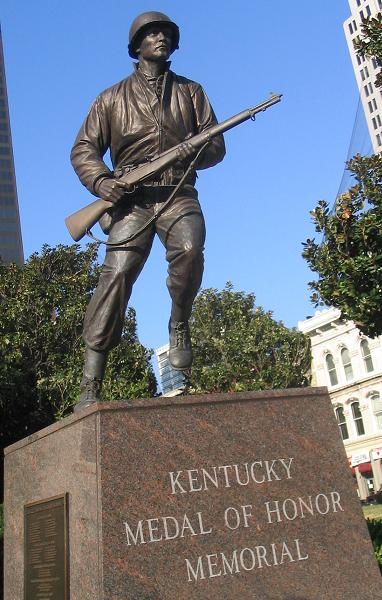 I took this picture. I release it under the terms of the GFDL.